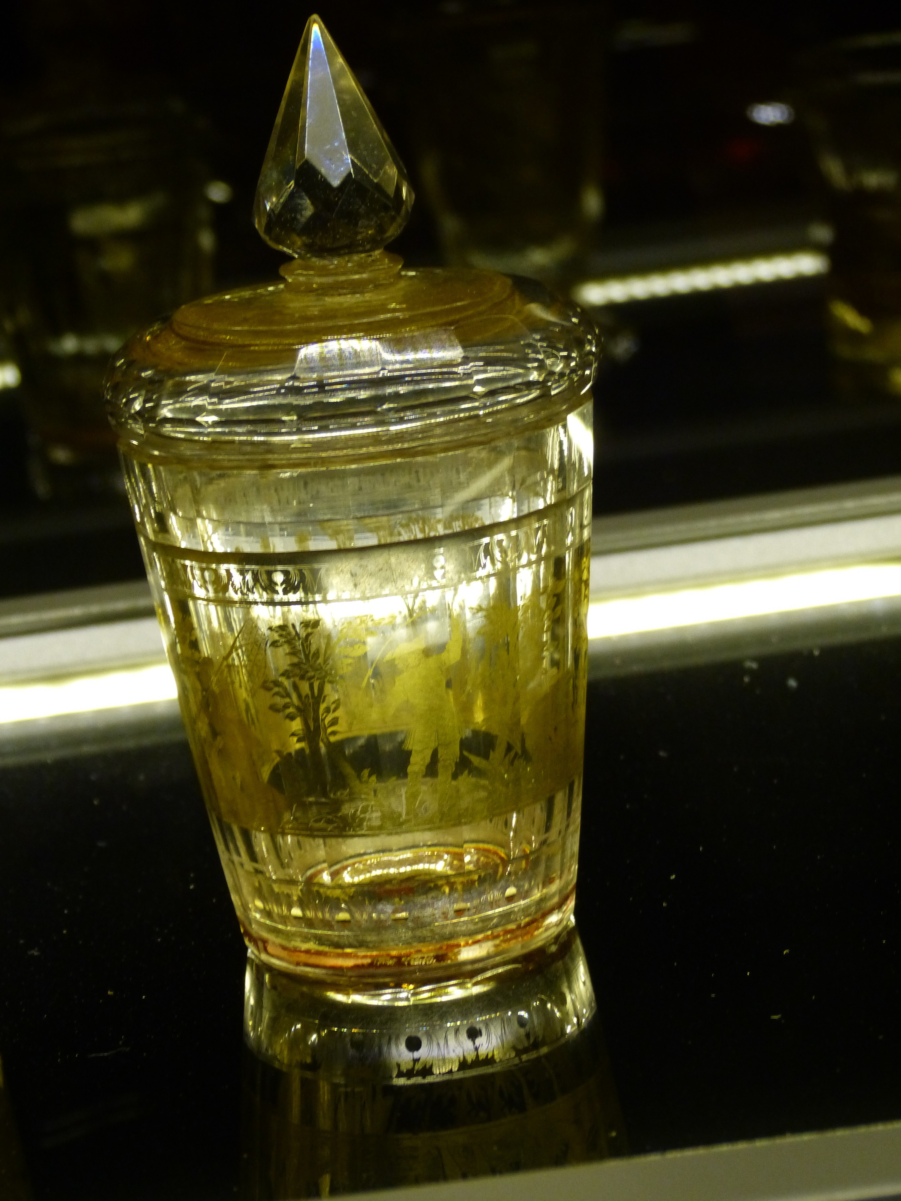 Ambras castle ( Tyrol ). Paintings collection: Covered glass beaker with fishing motifs, Bohemia ( 1730s )